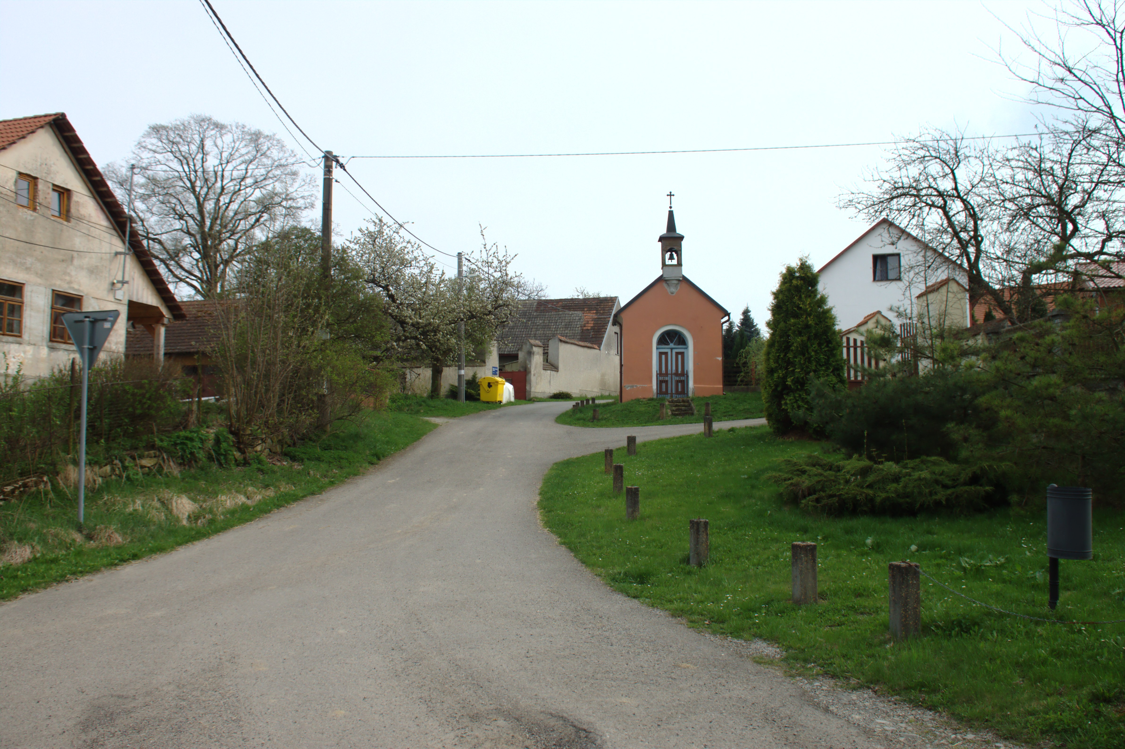 The village of Roubíčkova Lhota near Postupice in the Central Bohemian Region, CZ